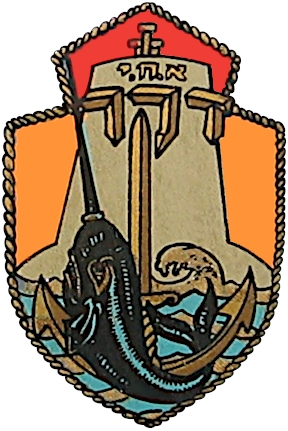 The emblem of INS Dakar